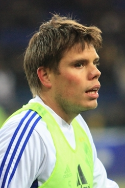 Serbian football player Ognjen Vukojević during match Dynamo Kyiv vs Metalist Kharkiv